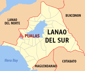 Map of the Lanao del Sur showing the location of Pualas